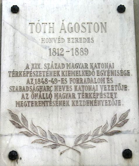 Commemorative plaque of Rafael Tóth Ágoston in Budapest District II, Szilágyi Erzsébet Alley No 7-9